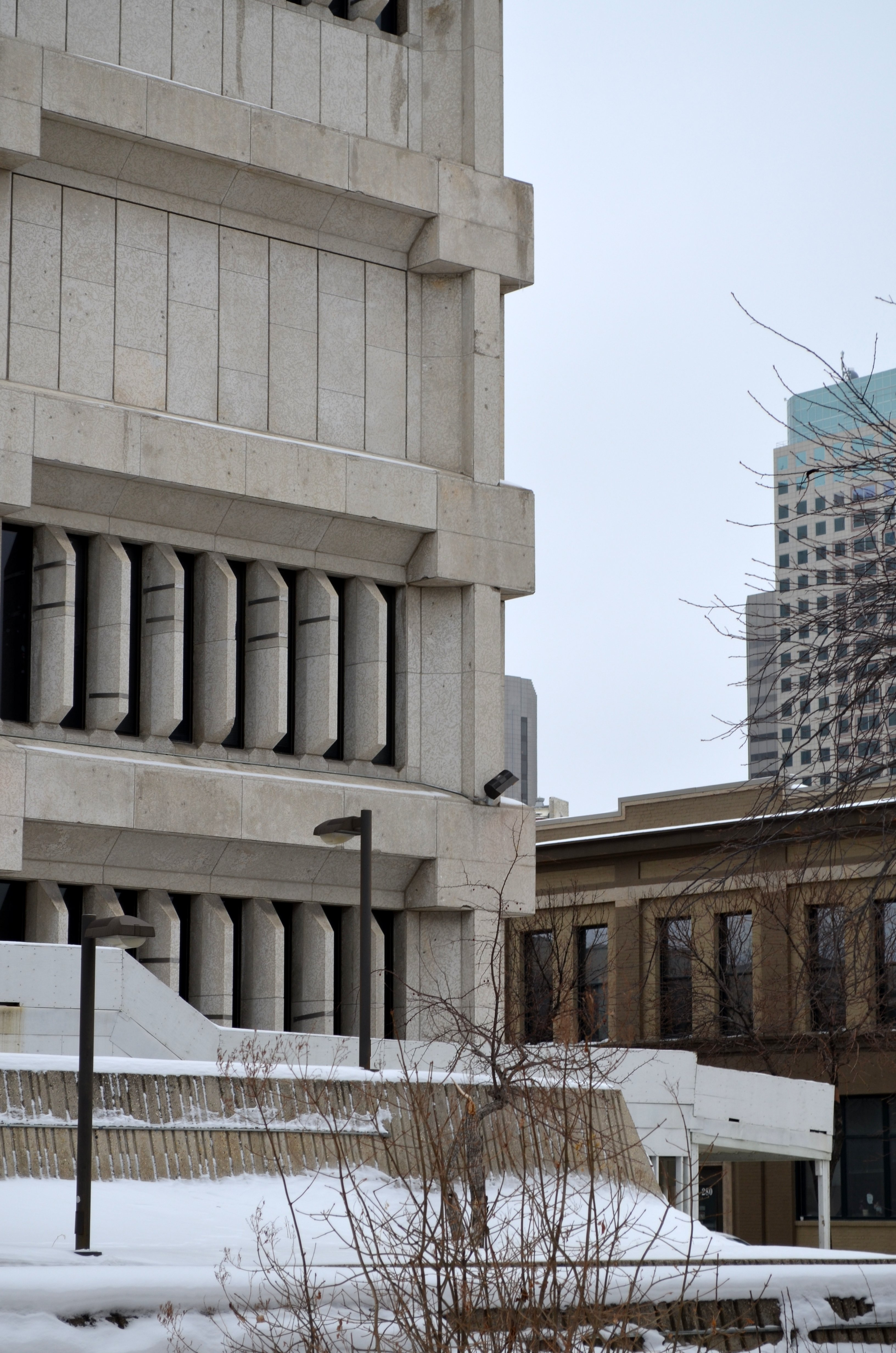 Detail of limestone cladding of the Public Safety Building in Winnipeg, Manitoba